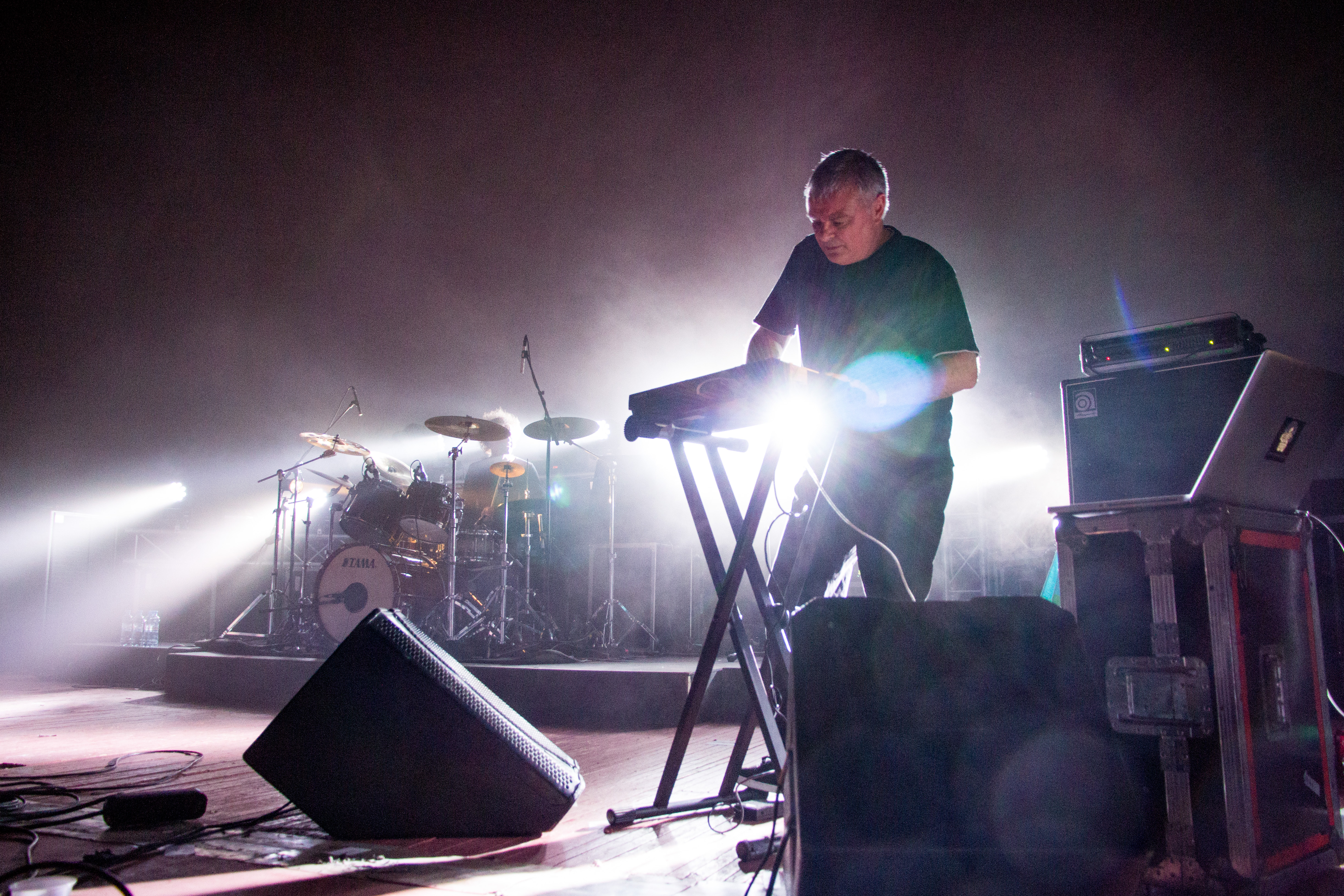 Drummer Bernard Trontin and keyboardist Cezare Pizzi of The Young Gods performing at SKIF 2014